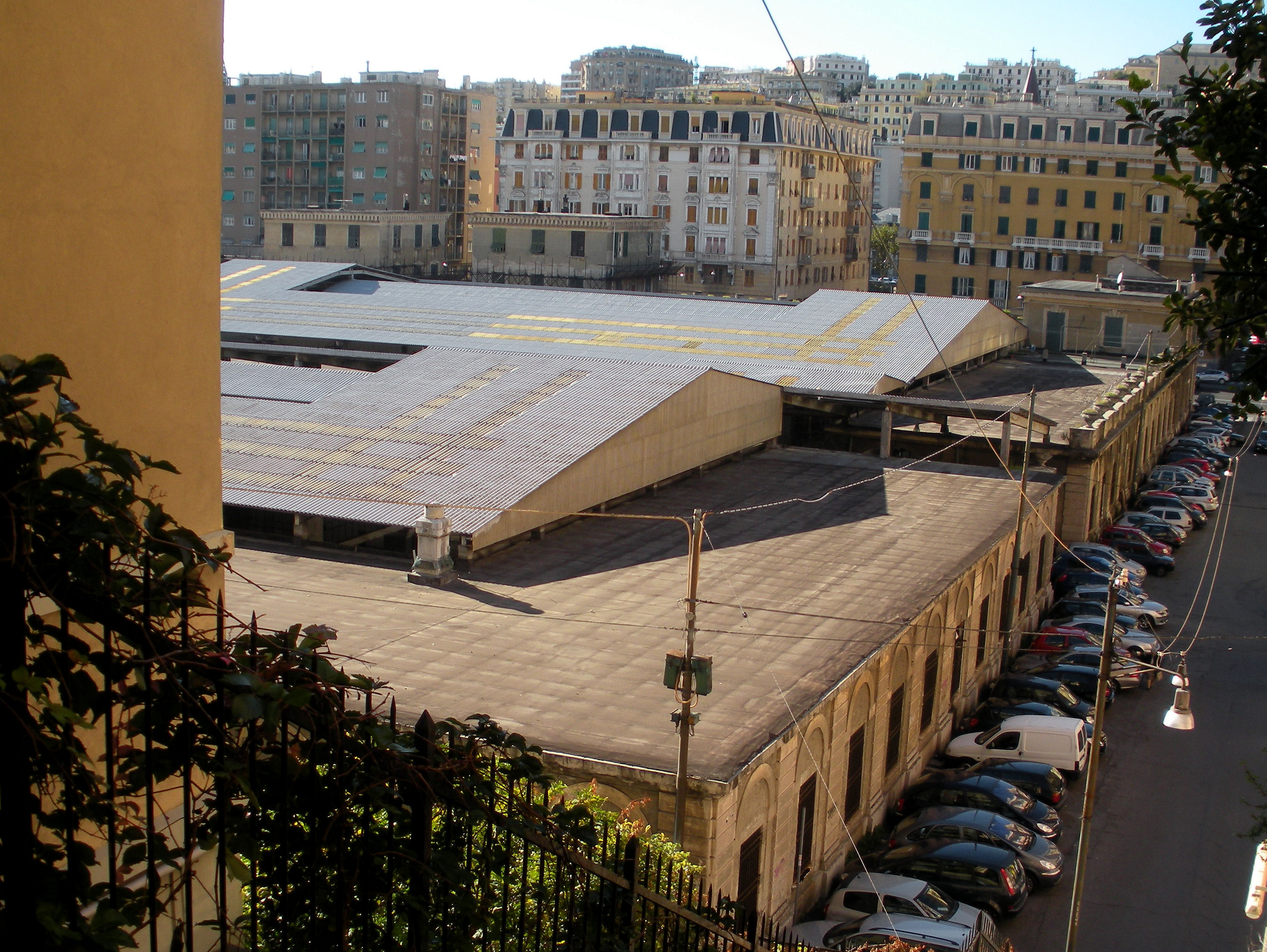 Genoa, San Fruttuoso, the former fruit and vegetable market